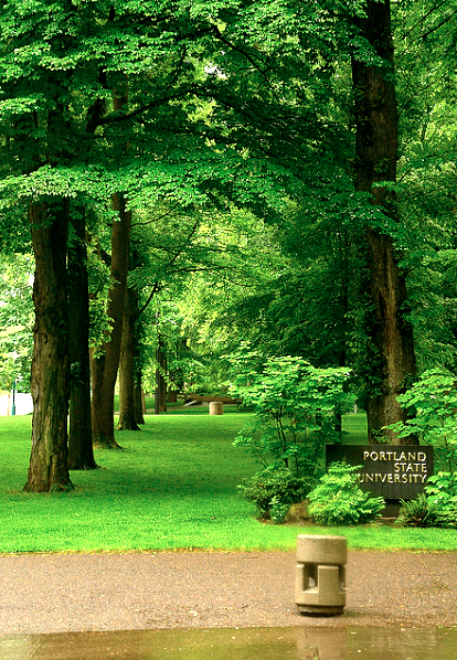 Portland State University park blocks on the corner of Market and Park Ave